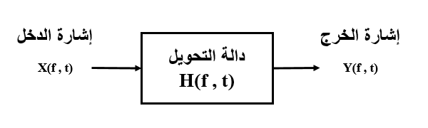 Telecommunication Channel Model.